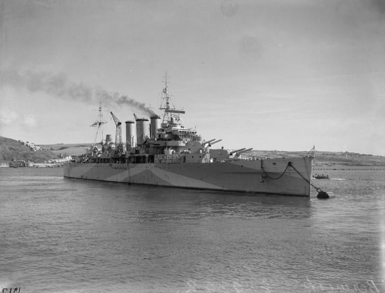 British heavy cruiser HMS BERWICK at a buoy in the Hamoaze.